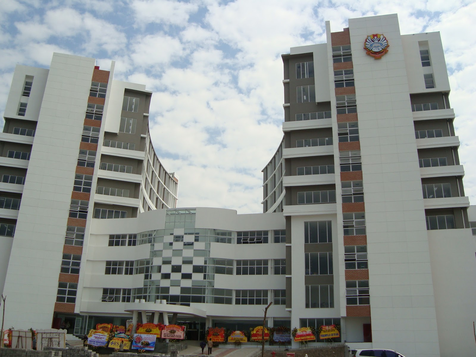 The third campus of Widya Mandala Catholic University Surabaya, Indonesia